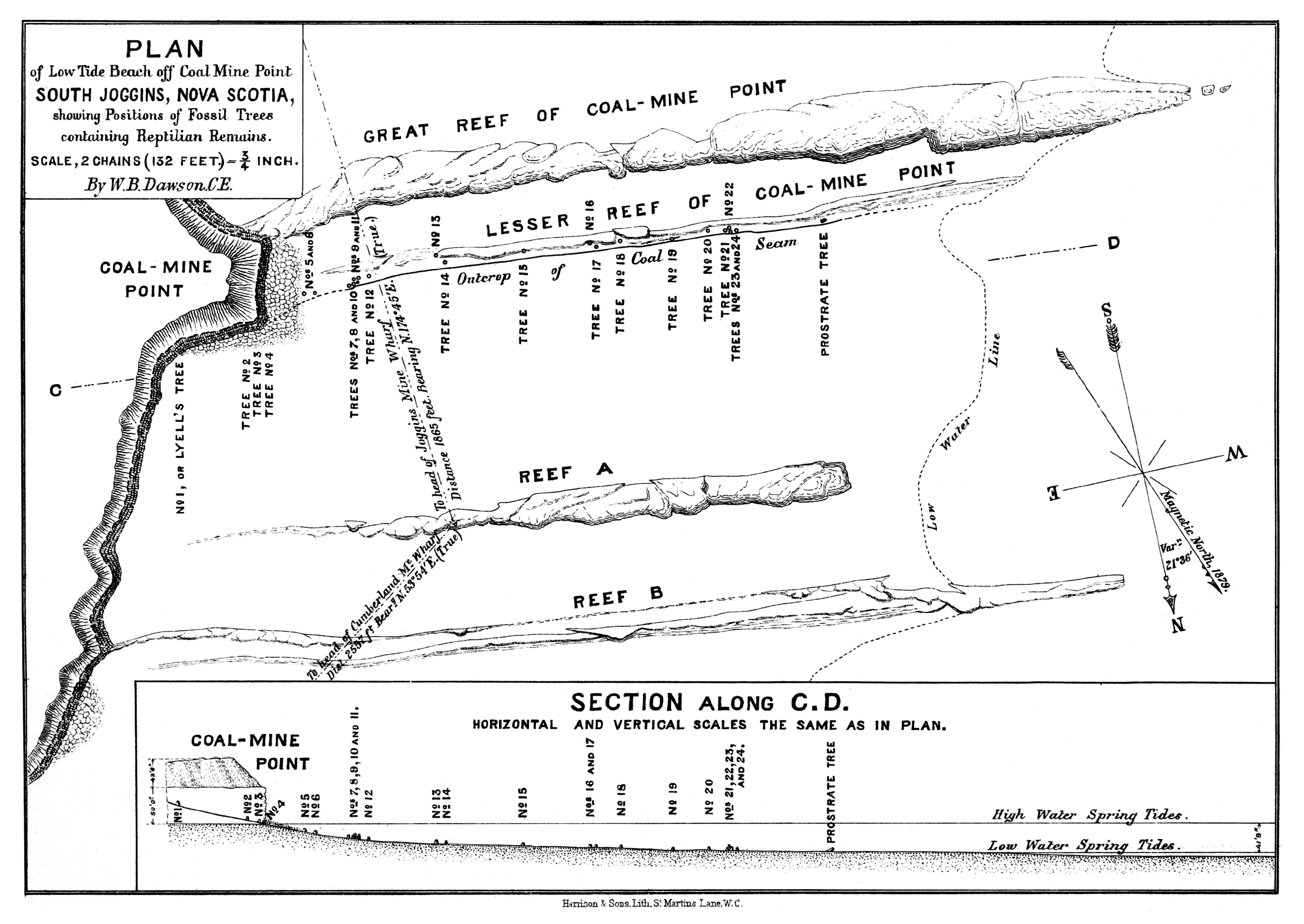 Historical map of the Joggins sea cliff at Coal Mine Point (Hardscrabble Point), Nova Scotia, including low ridges (“reefs”) which extend from the cliff front into the tidal flat of the Chignecto Bay. These “reefs” are erosional remnants representing those beds within the sedimentary succession of the Joggins Formation which are most resistant to erosion (at the Joggins Cliffs in most cases, as well as at Coal Mine Point, these are sandstone beds). From the ridge labelled as “Lesser Reef” in the map, John William Dawson and allies recovered 25 fossil tree stumps of lycopod trees in 1877, 15 of which contained fossil remains of land vertebrates (tetrapods).